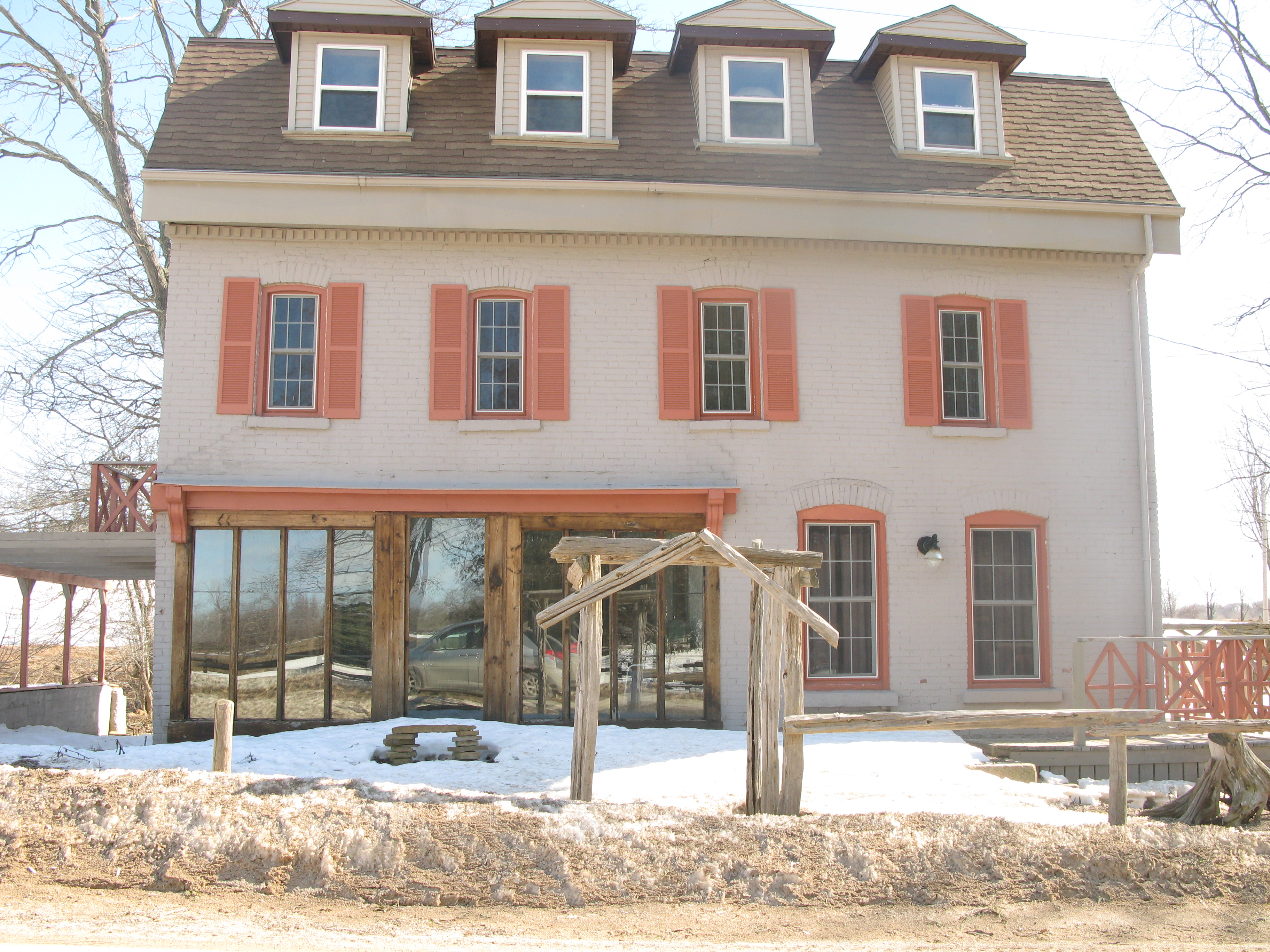 Balaclava, Ontario. Taken by Rebecca Scott on March 18,2007.